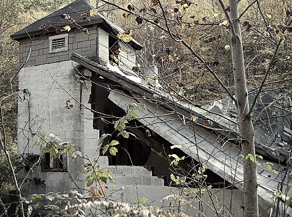 Church at Pickshin WV